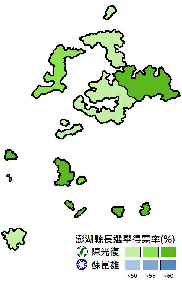 Penghu 2014 alternate